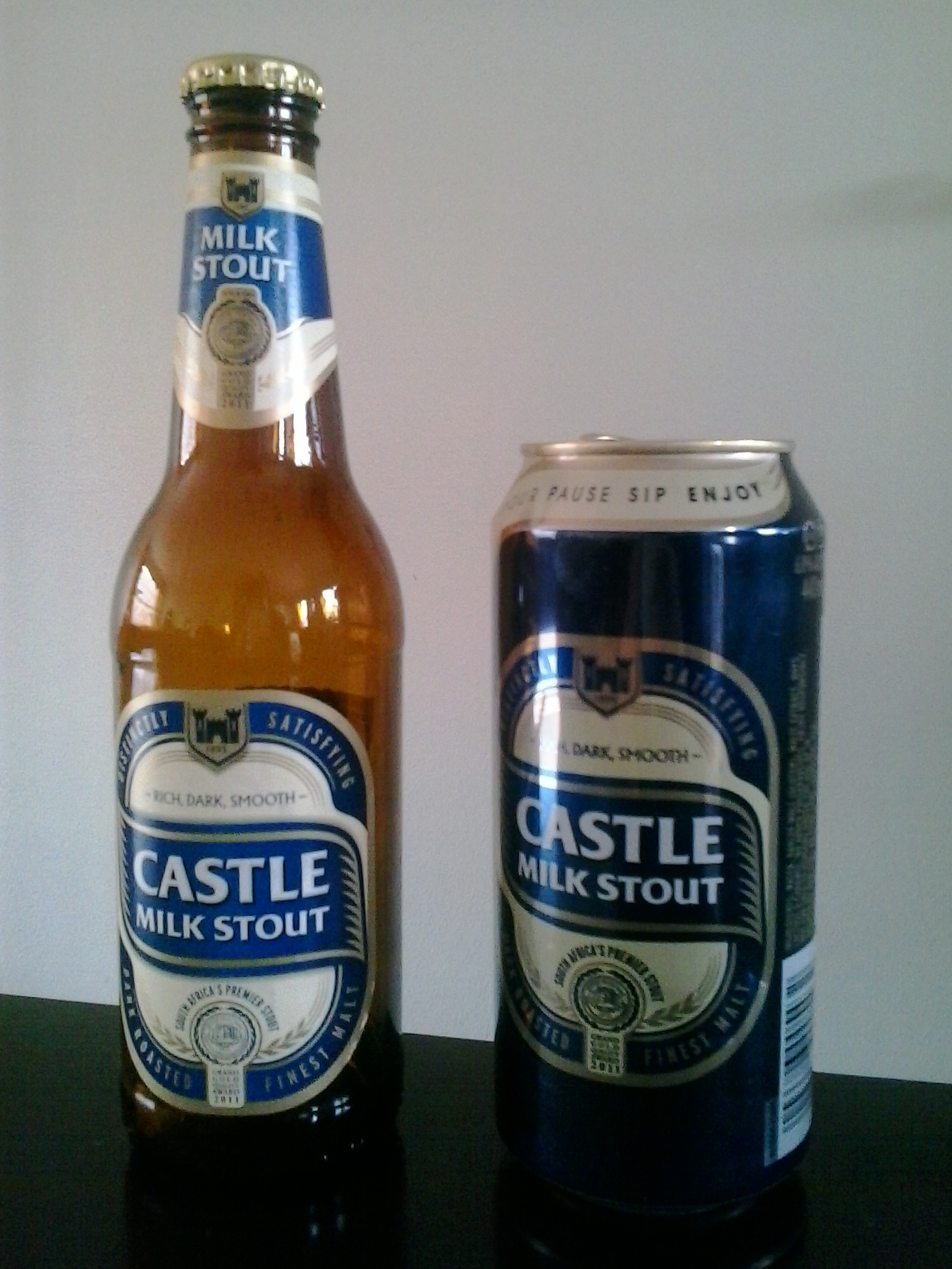 A photograph of a bottle and can of Castle Milk Stout